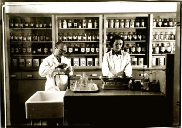 A public pharmacy in Petah Tikva as photographed during the 30ies.